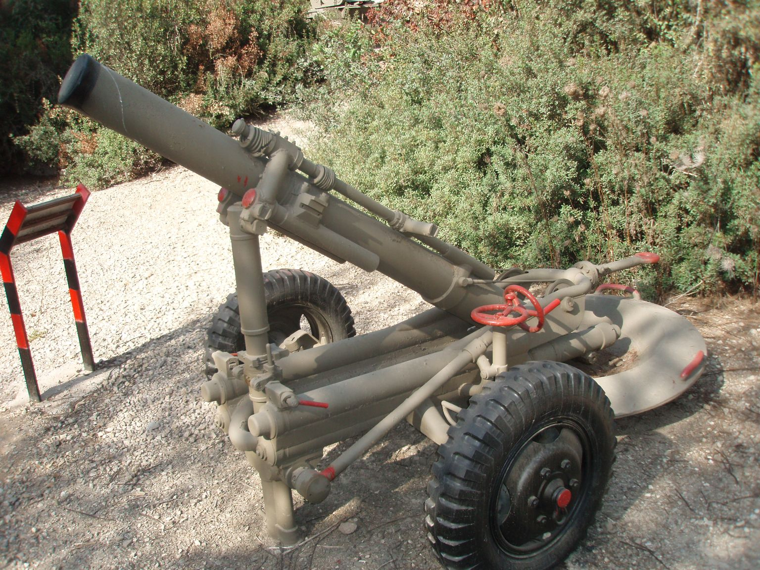 160 mm mortar (apparently Soltam M-66) in Beyt ha-Totchan, Zichron Yaakov, Israel.